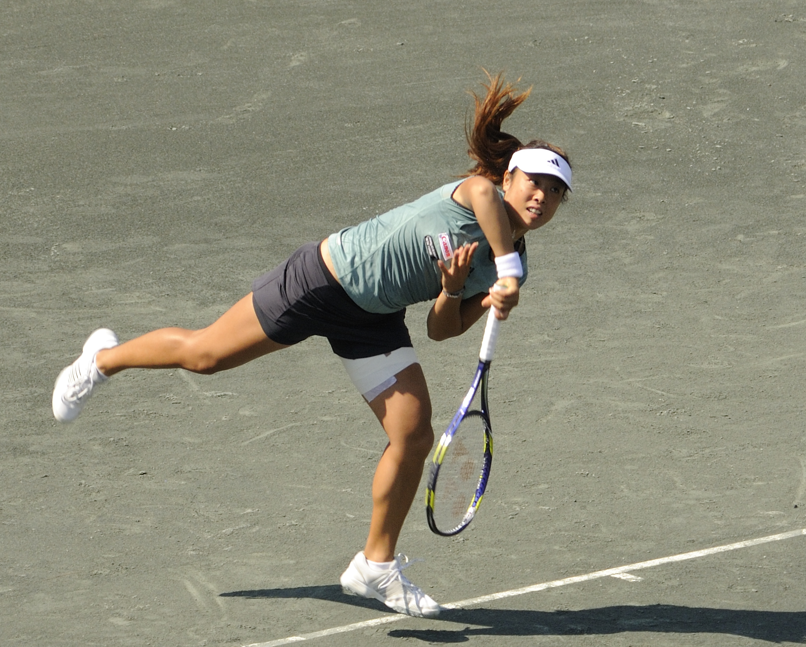 a tennis player from Japanja:森田あゆみ(Ayumi Morita)